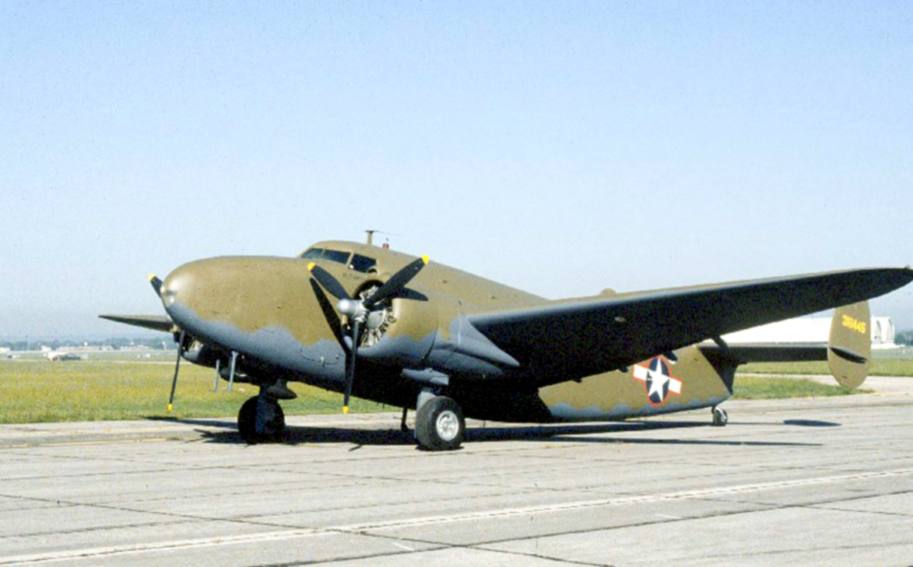 A U.S. Army Air Force Lockheed C-60A-5-LO Lodestar (s/n 43-16445, c/n 2605) at the National Museum of the United States Air Force in Dayton, Ohio (USA). After its USAAF service it was sold to Aero Africaine (F-BAMA), later to G. L. Waggoner (N94549). It was acquired by the USAF Museum in 1981.